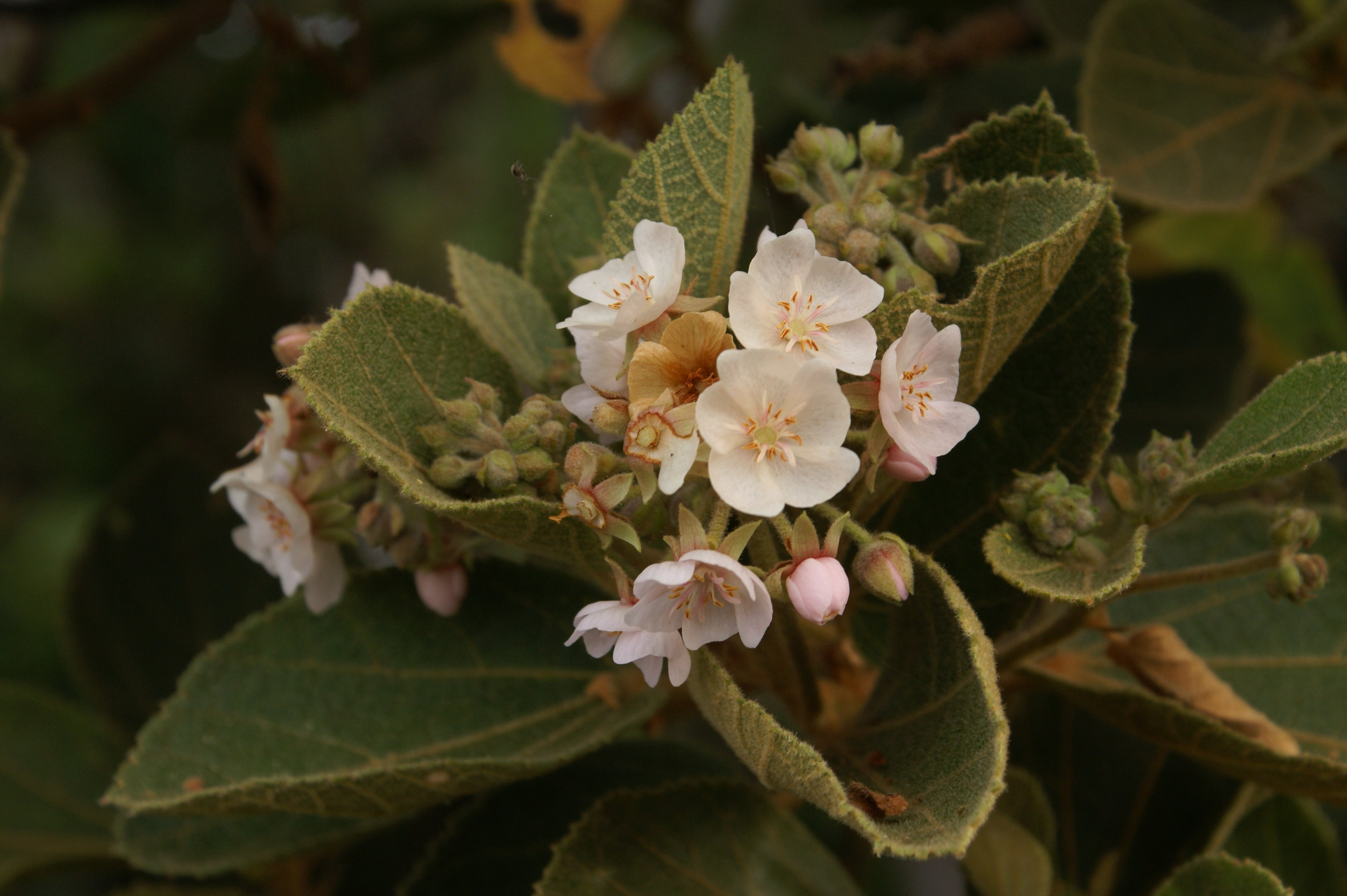 Blossom of Dombeya ficulnea, Réunion island